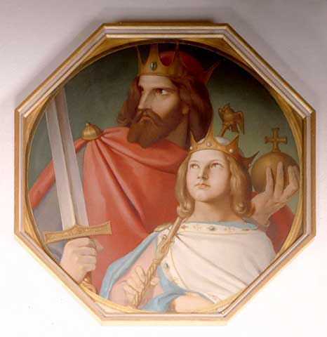 Johann Jakob Jung Ludwig das Kind u. Arnulf v. Kärnten Frankfurt a.M., Römer, Kaisersaal